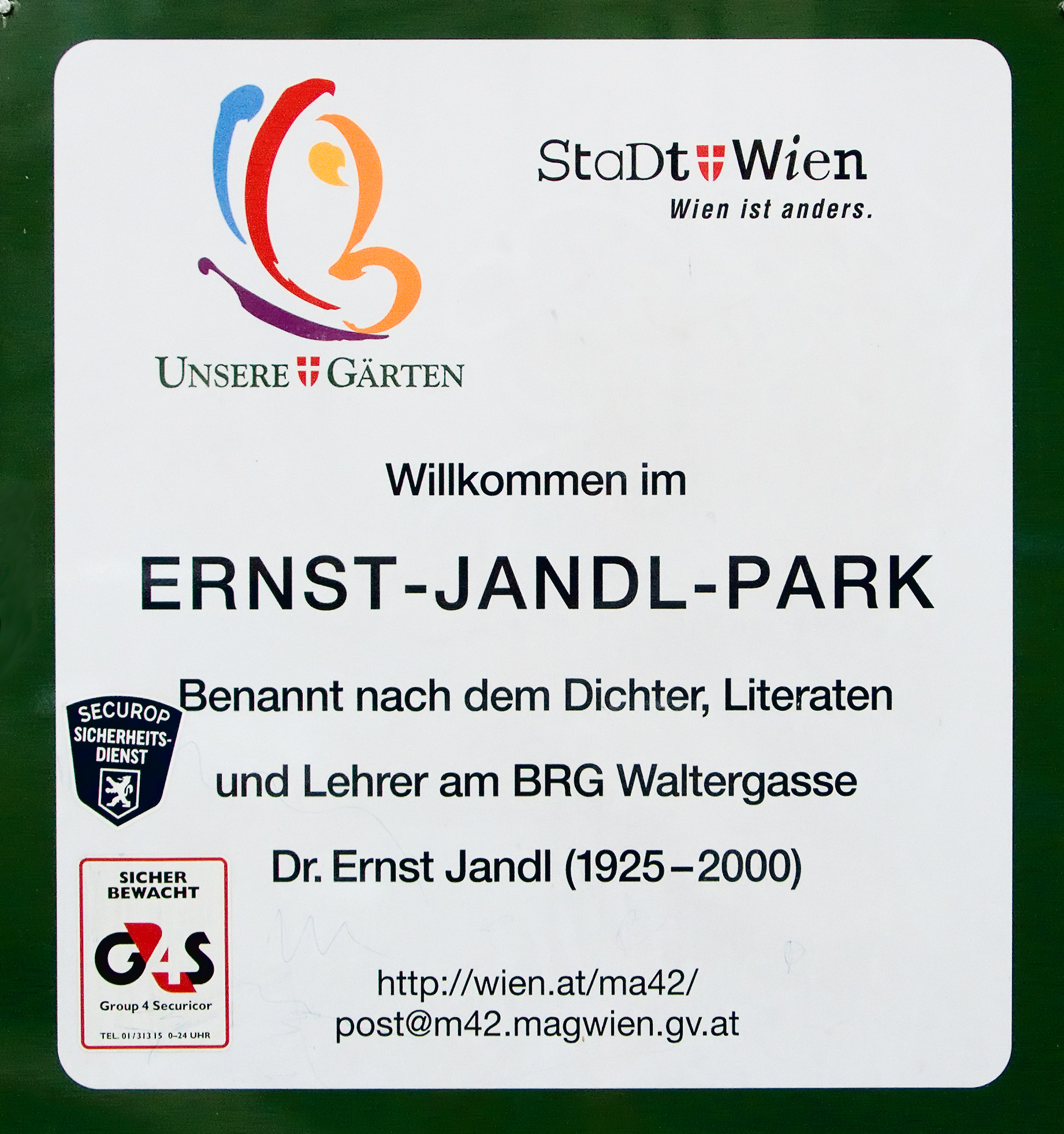 Ernst-Jandl-Park in Vienna, Wieden